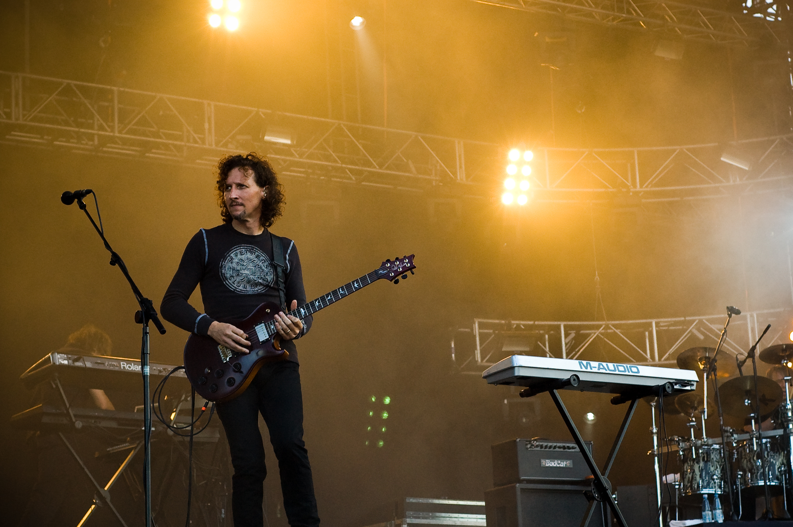 John Wesley playing at a Porcupine Tree-show at Ruisrock in Ruissalo, Finland on July 4, 2008.